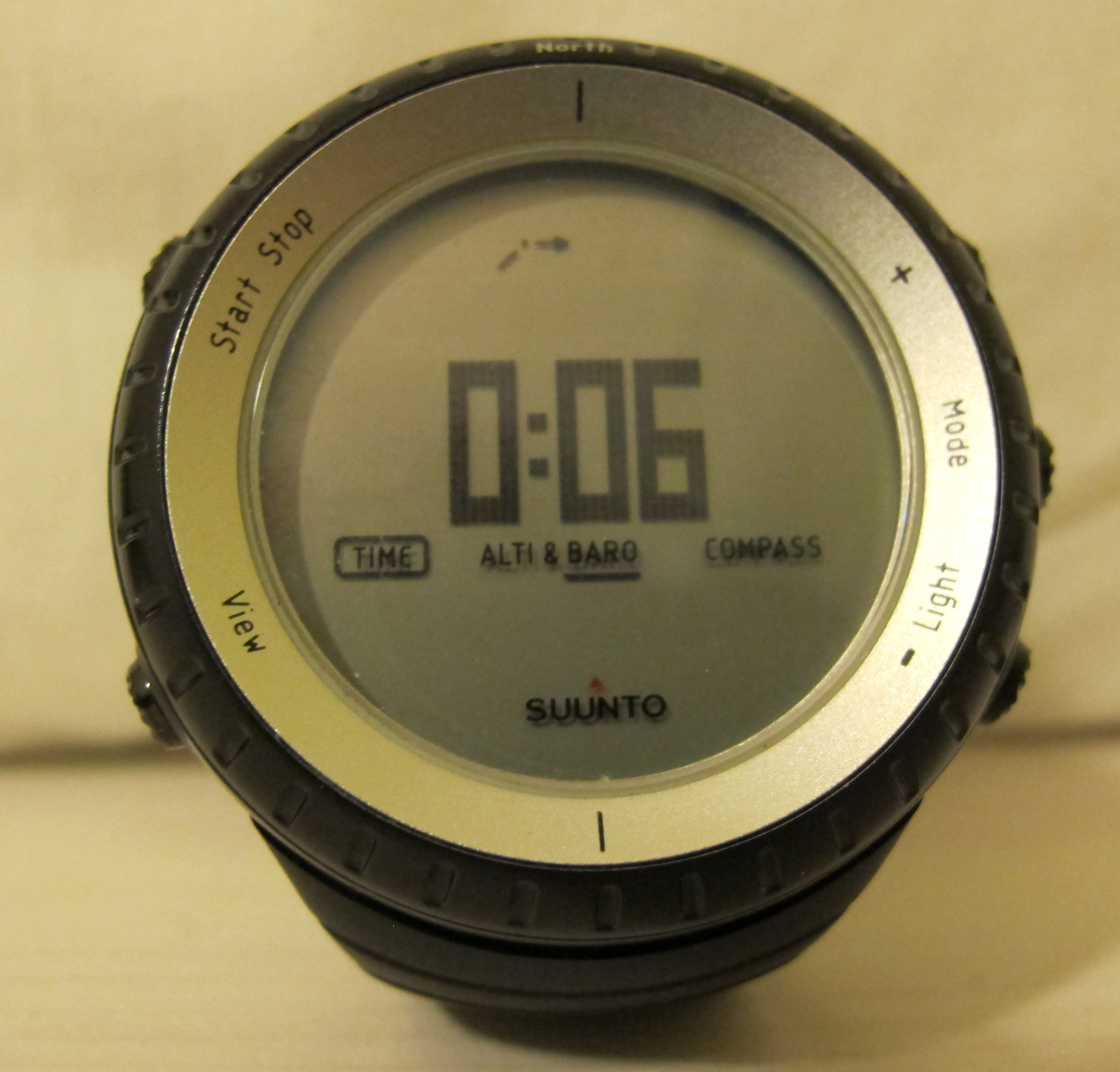 Suunto Core Glacier Gray